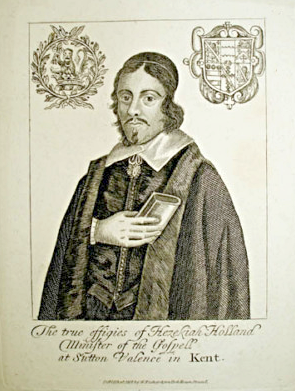 The true effigies of Hezekiah Holland, Minister of the Gospell at Sutton Valence in Kent, engraving published by W. Richardson, London, 1812